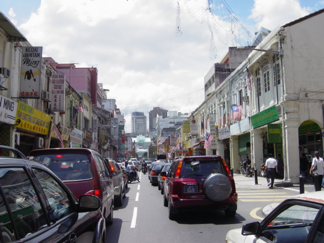 Traffic jam leading to Kuala Lumpur's Chinatown on Petaling Street.